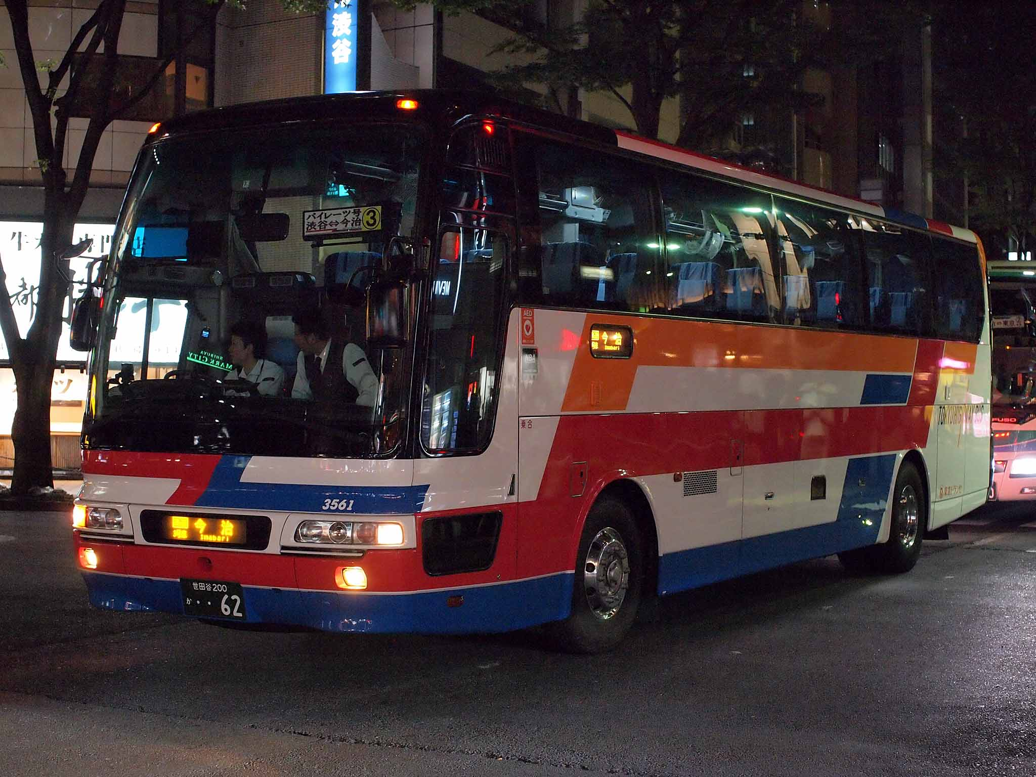 Fleet of Tokyu Transses, for overnight intercity bus "Pirates" between Shibuya, Tokyo and Imabari, Ehime. Bus is transferred from Keihin Kyuko Bus on 2016. Model: Mitsubishi Fuso Aero Queen 1 KL-MS86MP License plate: TKG200 KA0062 Place: Neighbor of Shibuya Mark City